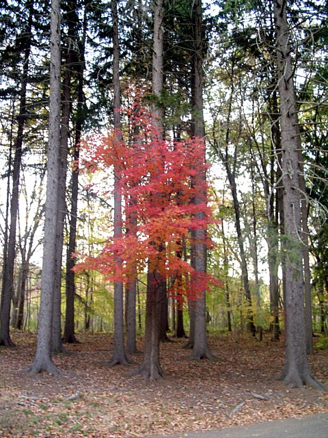 A red maple tree between a bunch of pines